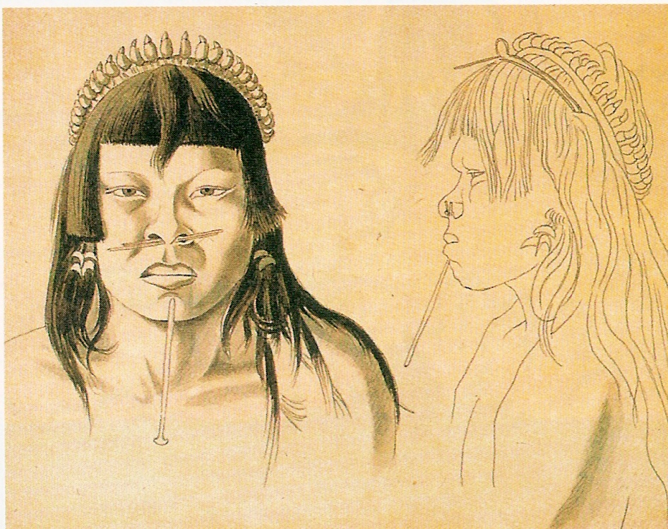 Bororo indian, in Brazil, by Hercules Florence, french painter, during Langsdorff's expedition in amazonia (1825 - 1829)